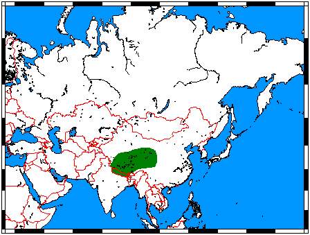 Tibetan Sand Fox (Vulpes ferrilata) range map, made by me with help of Map depending on the range map at IUCN red list.